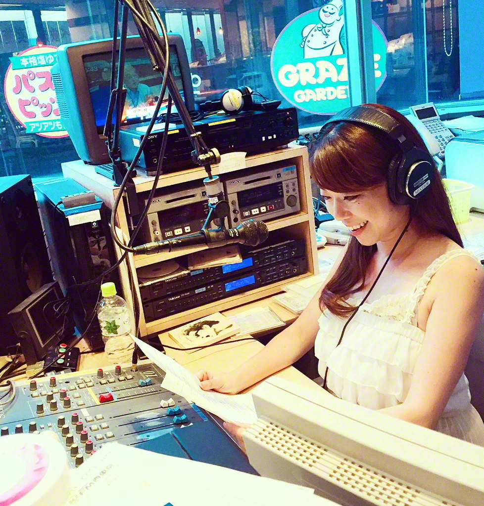 朝妻久美（ラジオパーソナリティー）